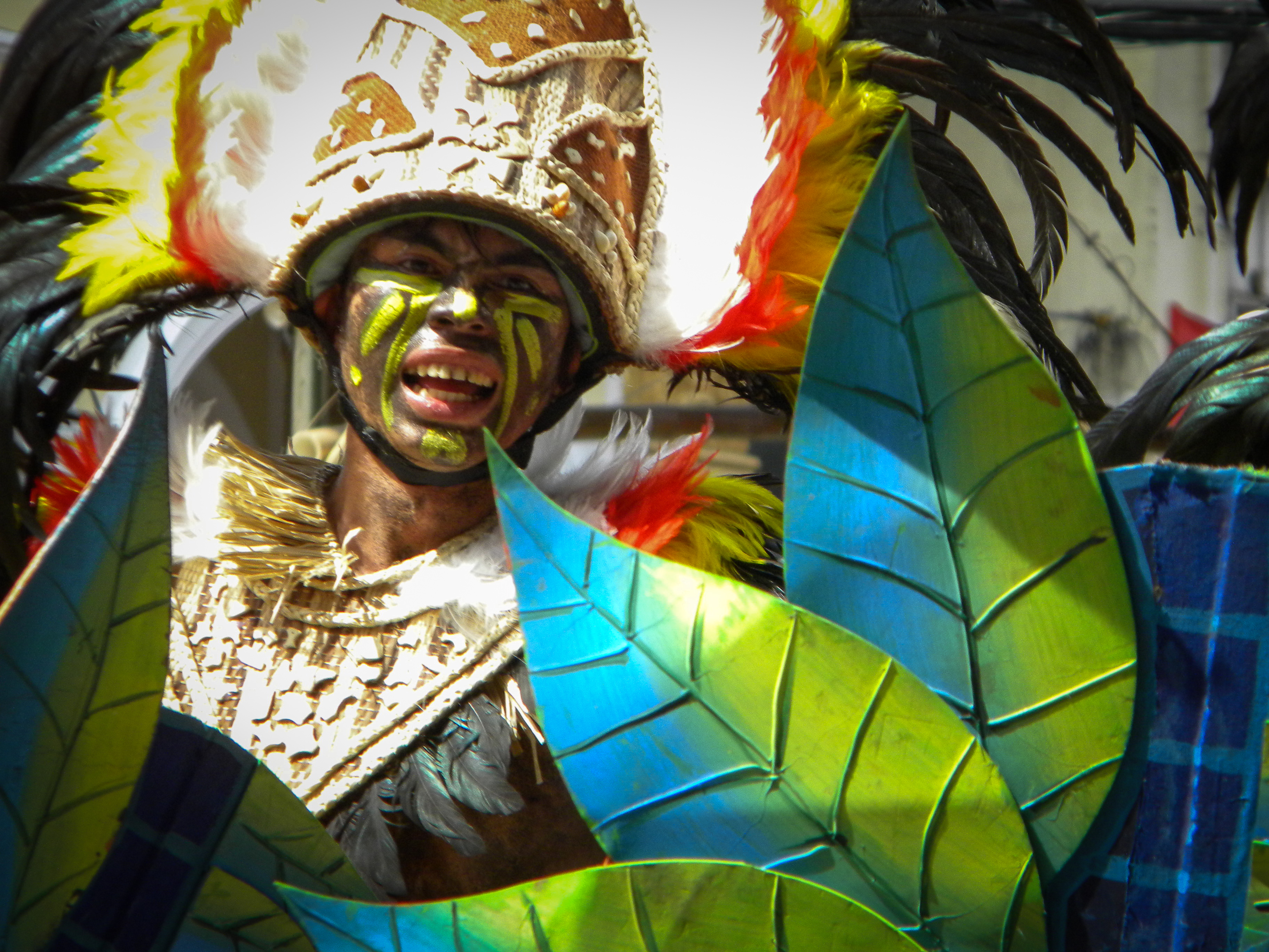 An Ati dancer-warrior performs at the annual Dinagyang Festival in Iloilo City.